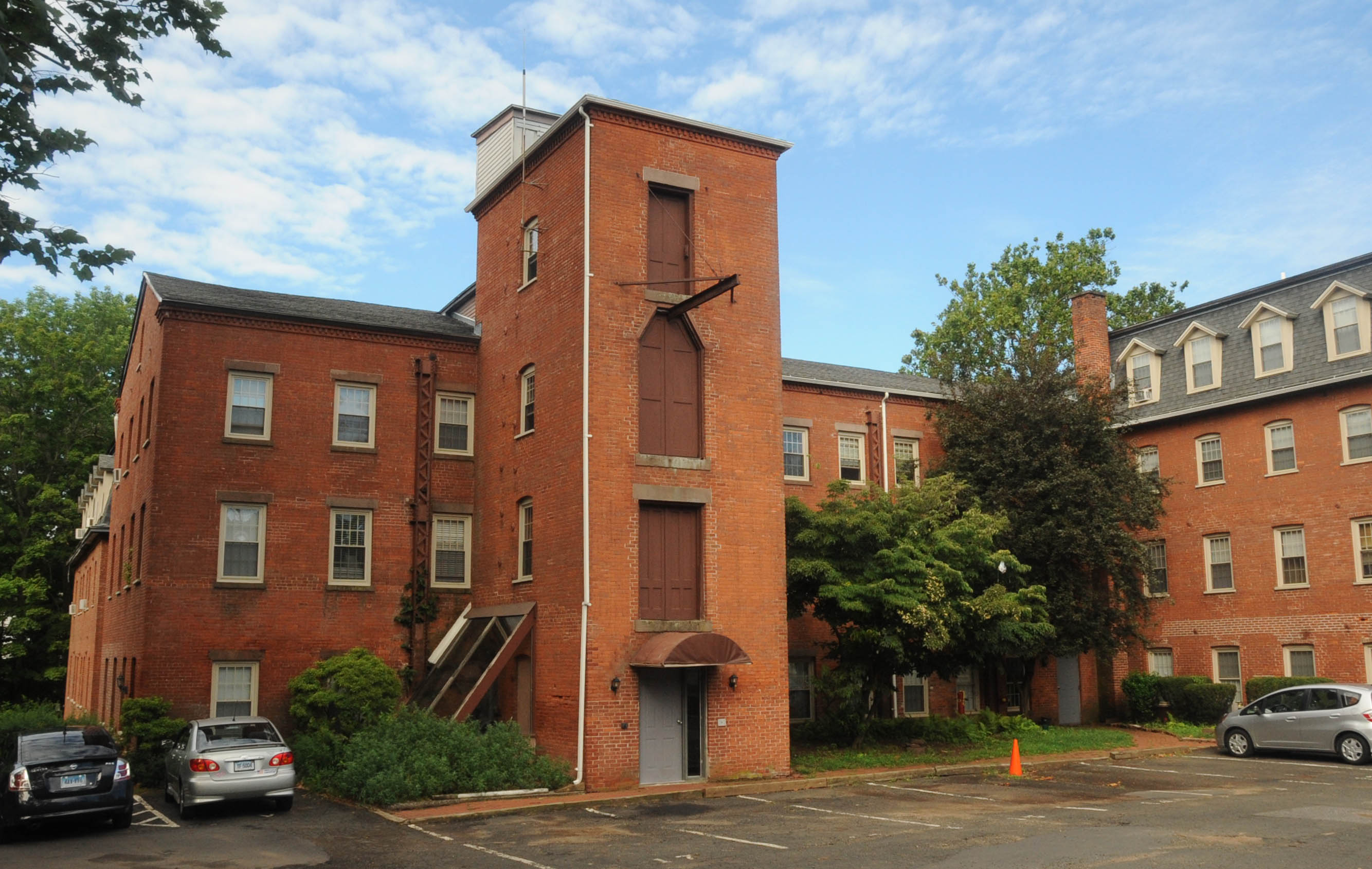 BUILT IN 1836 THE OLDEST SURVIVING TEXTILE MILL BUILDING IN THE CITY. INCORPORATED IN 1834 BY SAMUEL RUSSELL, SAMUEL HUBBARD AND OTHERS, IN 1841, THE COMPANY WAS THE FIRST TO PRODUCE ELASTIC WEBBING ON POWER LOOMS. BY 1896, IT MANUFACTURED A WIDE VARIETY OF WOVEN PRODUCTS AND WAS THE NATION'S LARGEST MANUFACTURER OF SUSPENDERS. THE BUILDINGS ARE NOW A CONDO APARTMENTS.